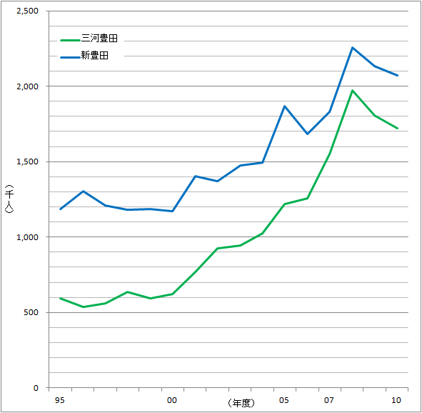 Vehicle ridership of Shin-Toyota and Mikawa-Toyota Station.